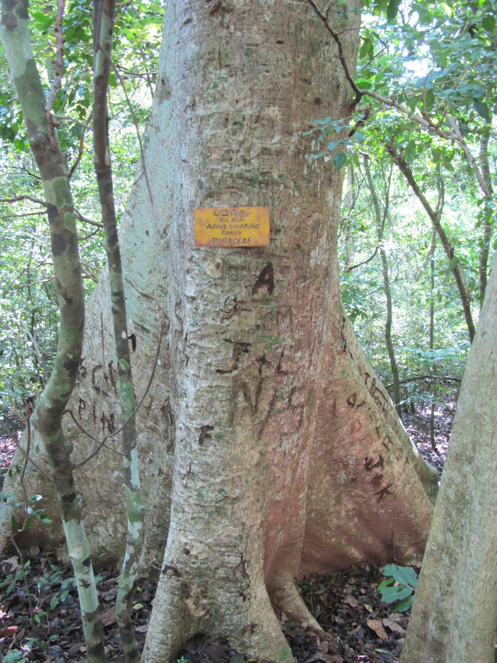 Haldina cordifolia, Udawattakele, Sri Lanka